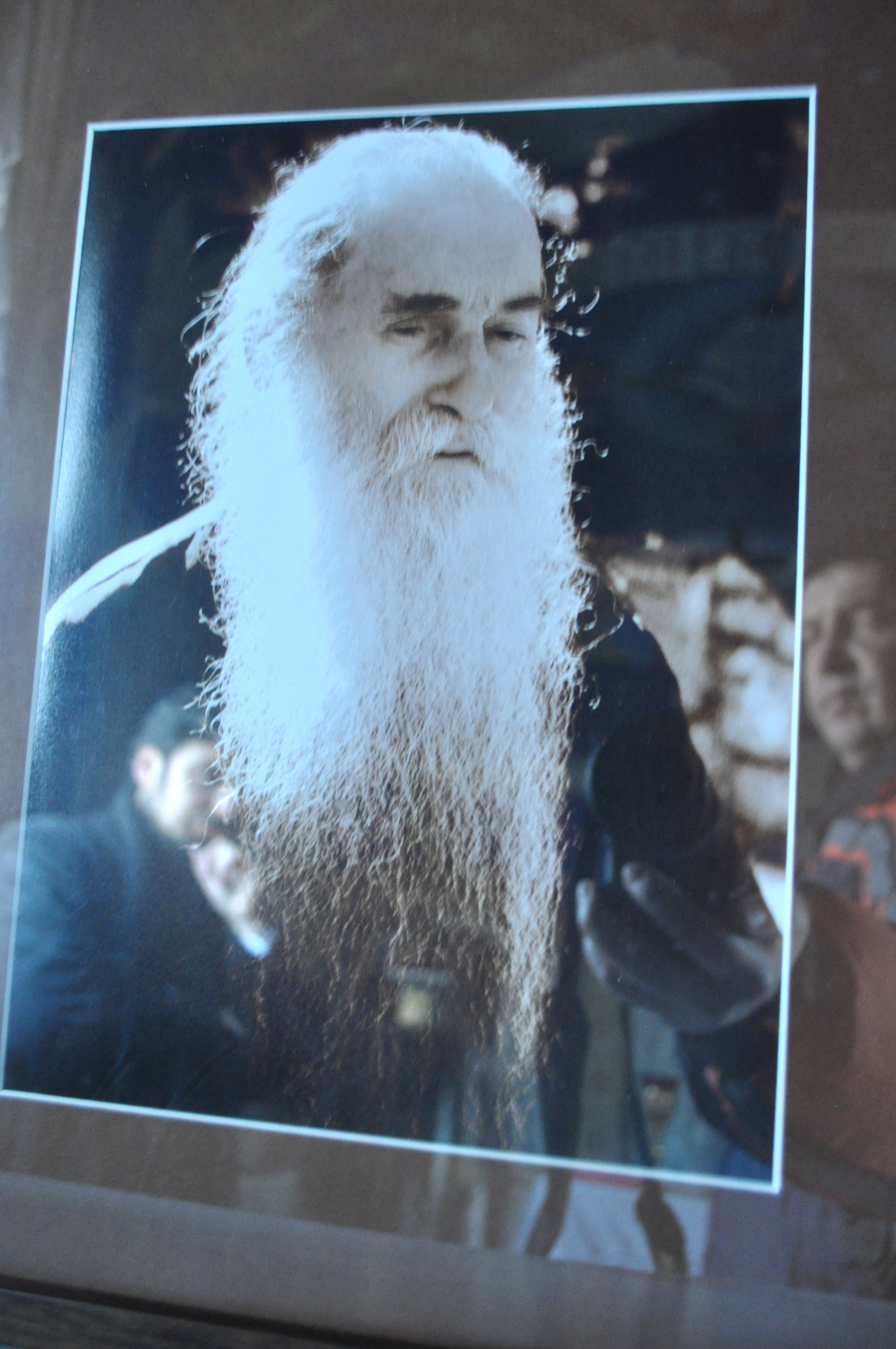 Wooden church in Filea de Jos, Cluj county